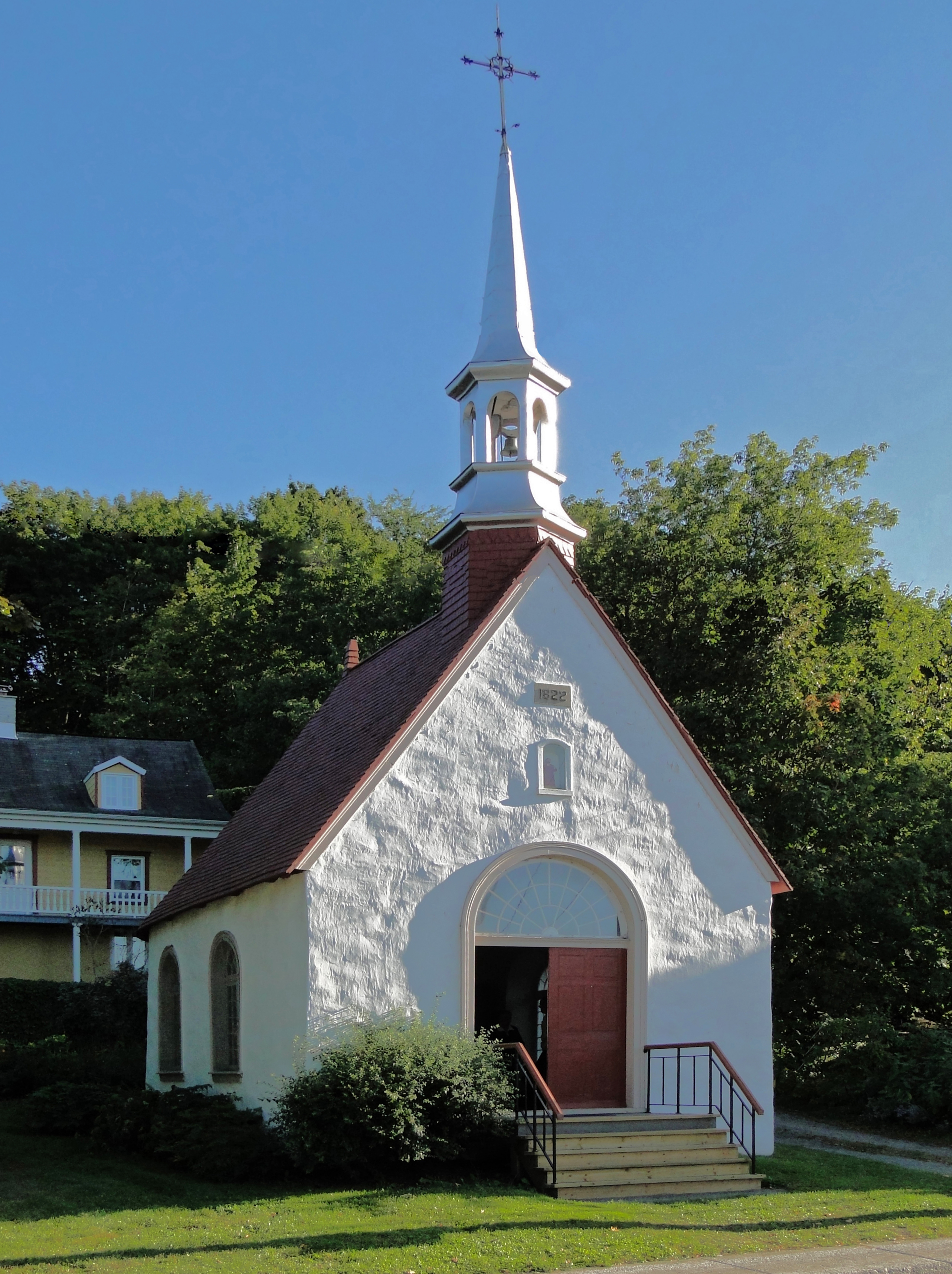 Saint Francis Xavier Processional Chapel (1822), Lévis, province of Quebec, Canada